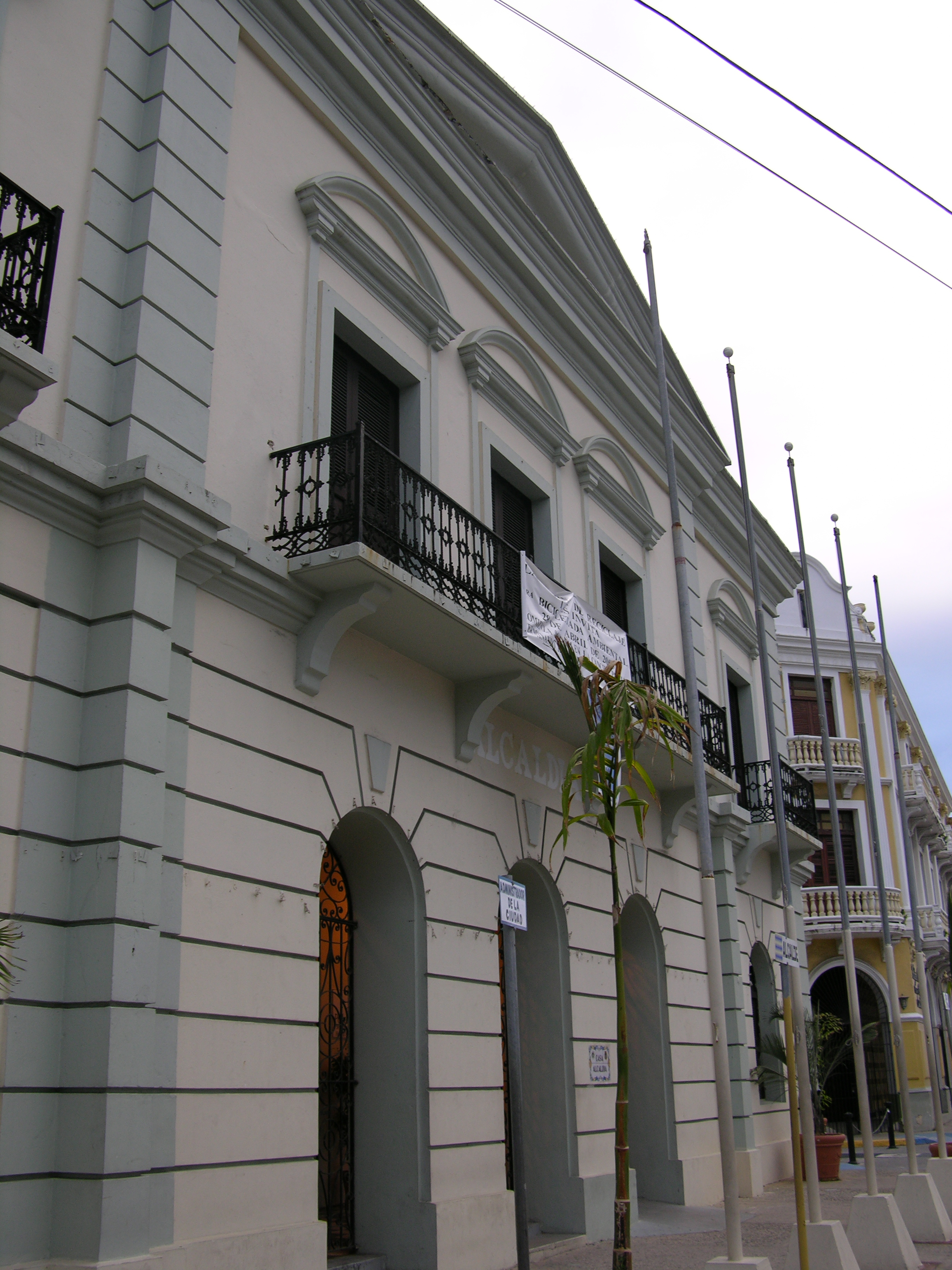 Manuel Santiago